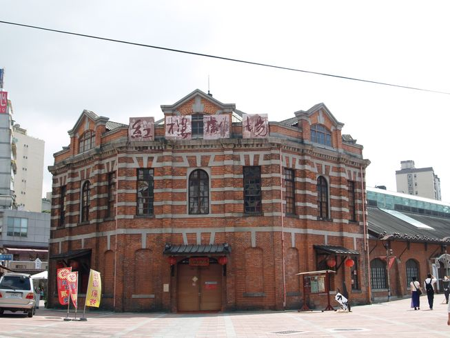 Red House Theater, Taipei City.中文（台灣）: 臺北市西門町紅樓。